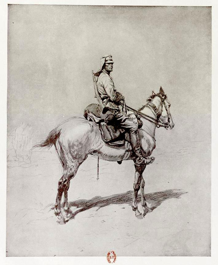 Sketch of a Greek cavalryman during the Balkan Wars